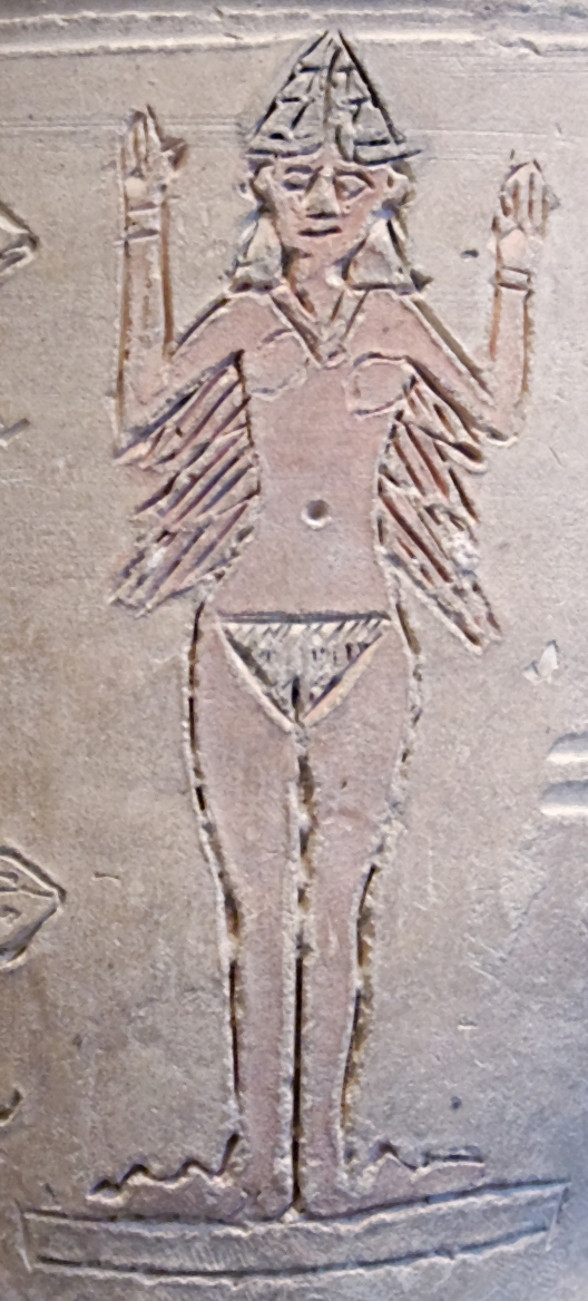 Detail of ancient Mesopotamian so-called "Ishtar Vase", terracotta with cut, moulded, and painted decoration, from Larsa, early 2nd millennium BC. Shows a representation of the goddess Ishtar (Inana/Inanna), naked, winged and wearing a version of the horned cap or tiara of divinity. The pubic triangle and belly-button are heavily emphasized, while the breasts were crudely scratched in as an afterthought. For discussion of similar artistic depictions, and whether they are always truly of Ishtar, see Gods, Demons, and Symbols of Ancient Mesopotamia: An Illustrated Dictionary by Jeremy Black and Anthony Green (1992, ISBN 0-292-70794-0), p. 144. She is surrounded by birds, fish, a bull and a tortoise (not visible in this crop).